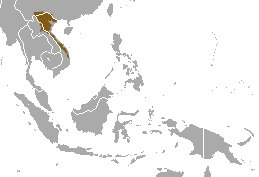 Owston's Palm Civet (Chrotogale owstoni) range